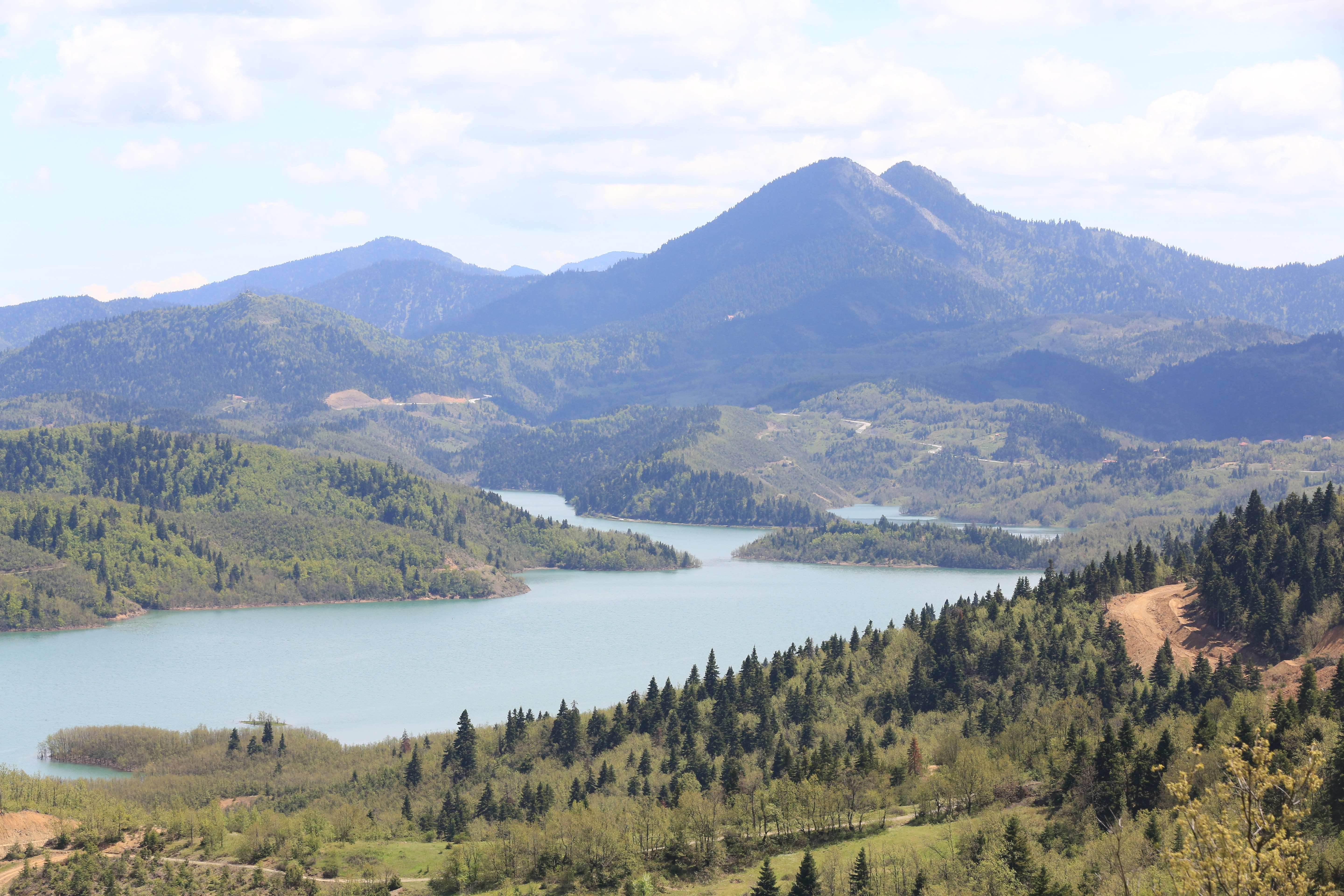 This is a photography of Natura 2000 protected area with ID GR1410001